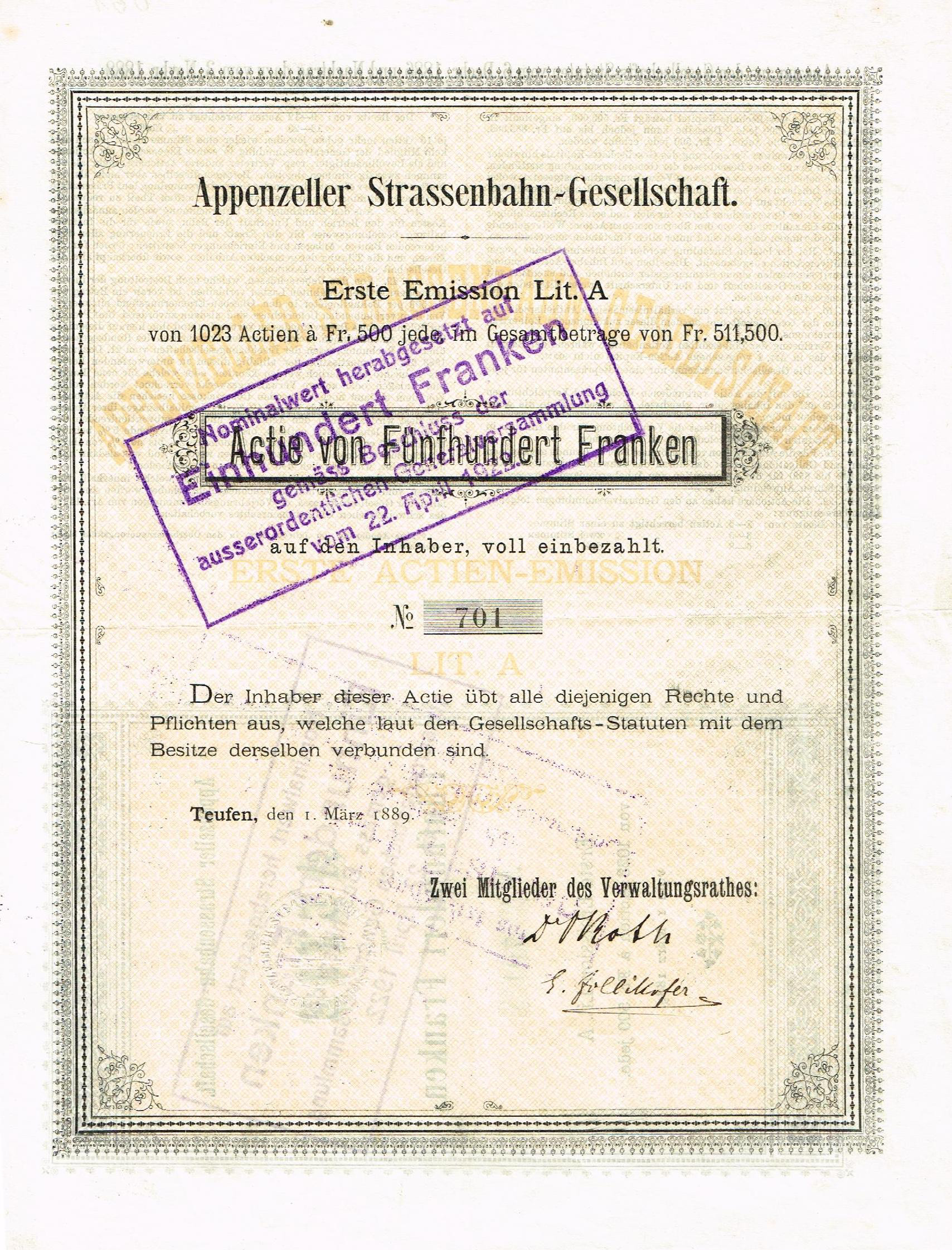 Share of the Appenzeller Strassenbahn-Gesellschaft, issued 1. March 1889